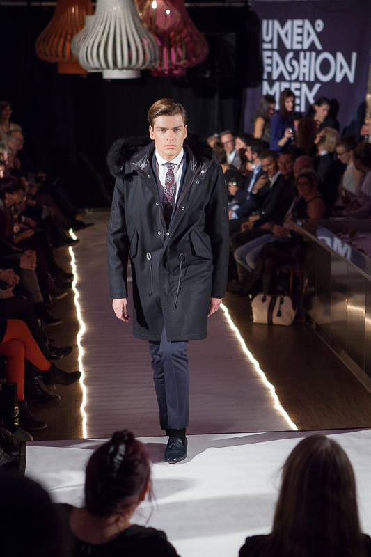 Fashion show of tiger of sweden with the model Paul Melun.